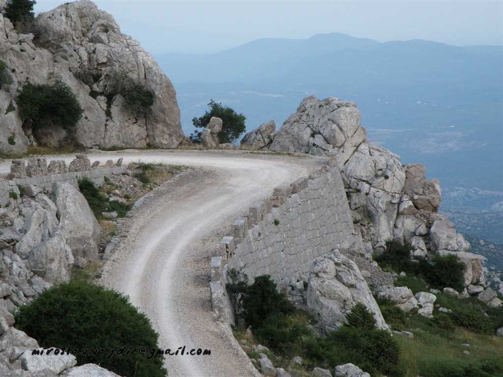 Underpinned part of the road.